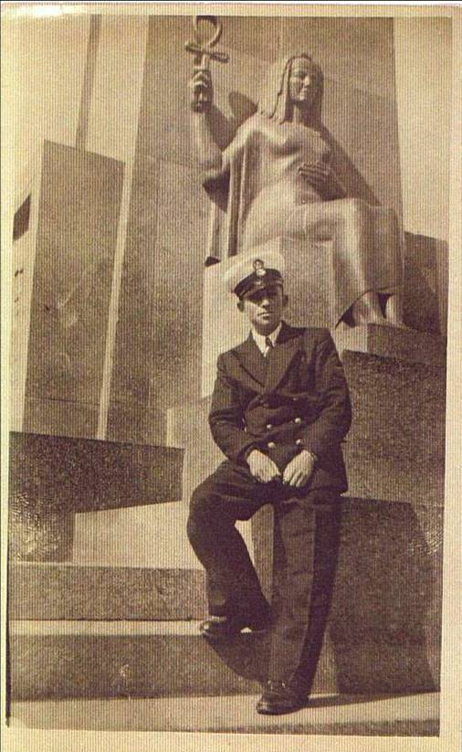 Edmond Wilhelm Brillant Hagana Volunteer to Royal Navy